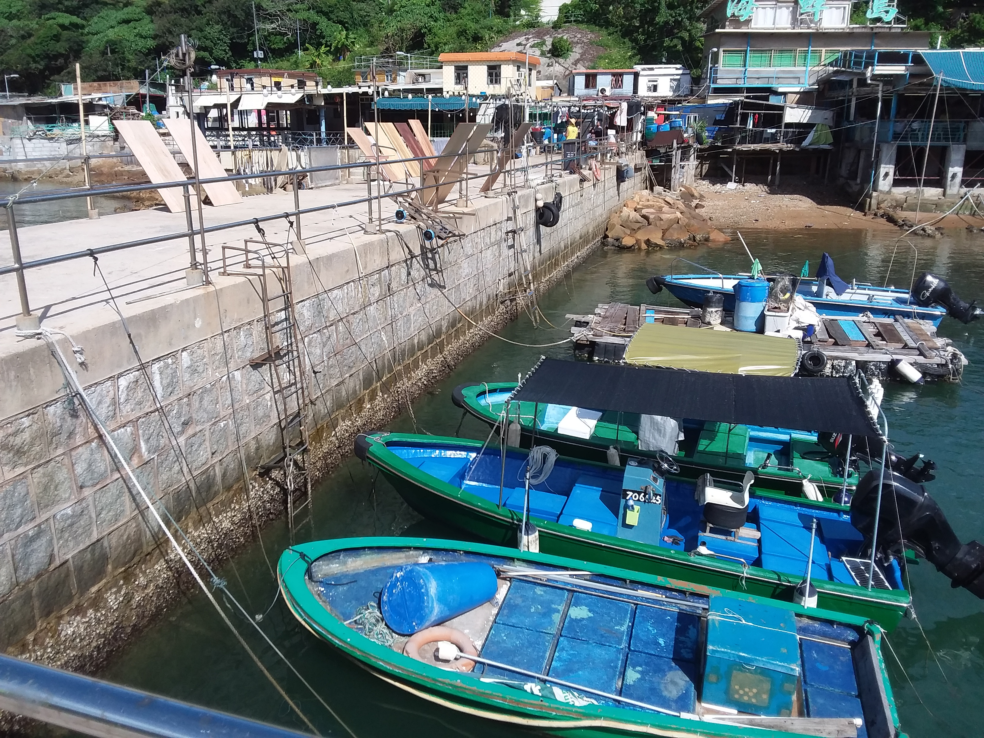 HK 西貢 Sai Kung 清水灣半島 Clear Water Bay Peninsula 布袋澳 Po Toi O Piers n boats in August 2018